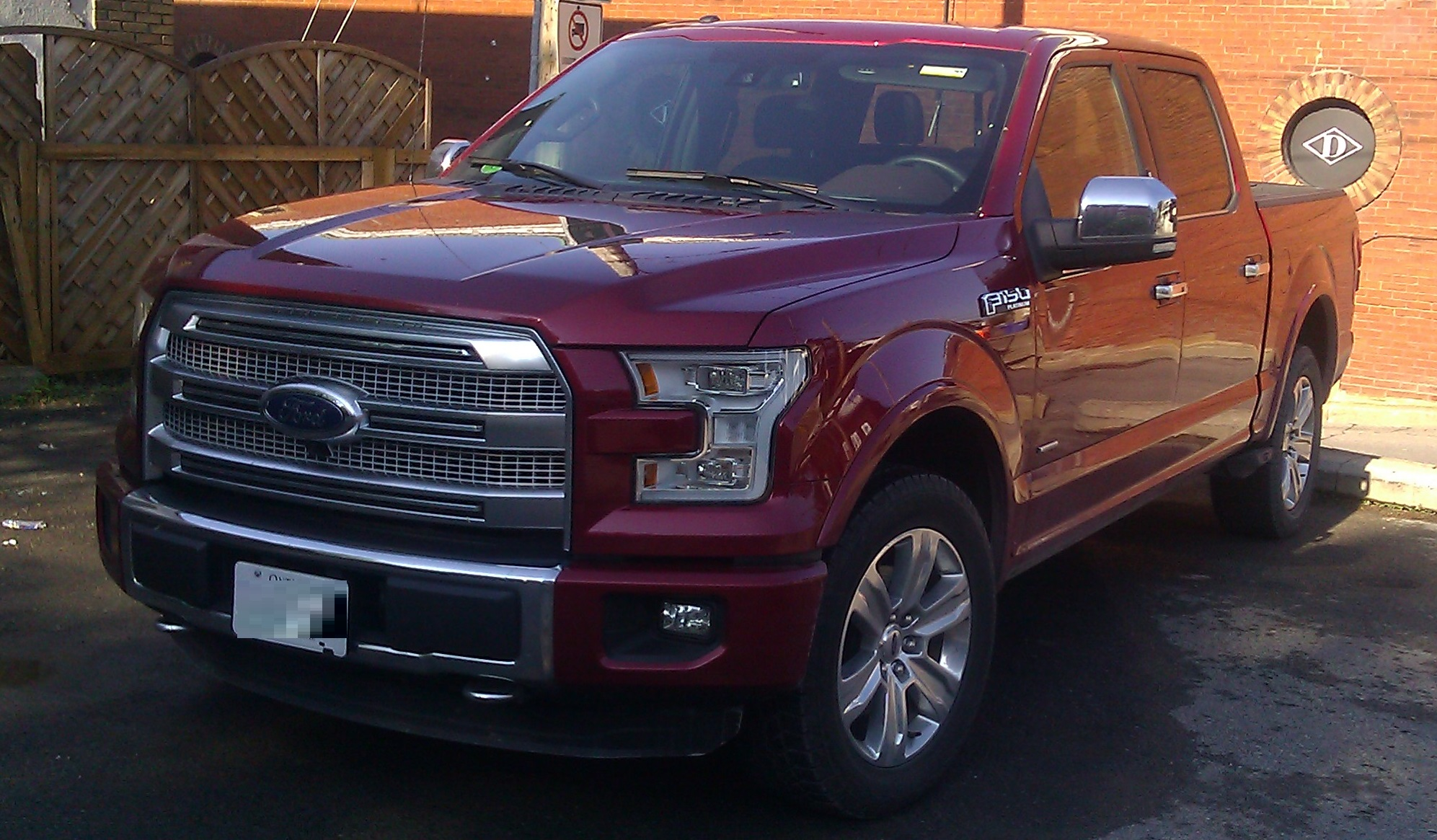 2015 Ford F-150 Platinum photographed in Ste. Anne De Bellevue, Quebec, Canada at Cruisin' At The Boardwalk 2015.